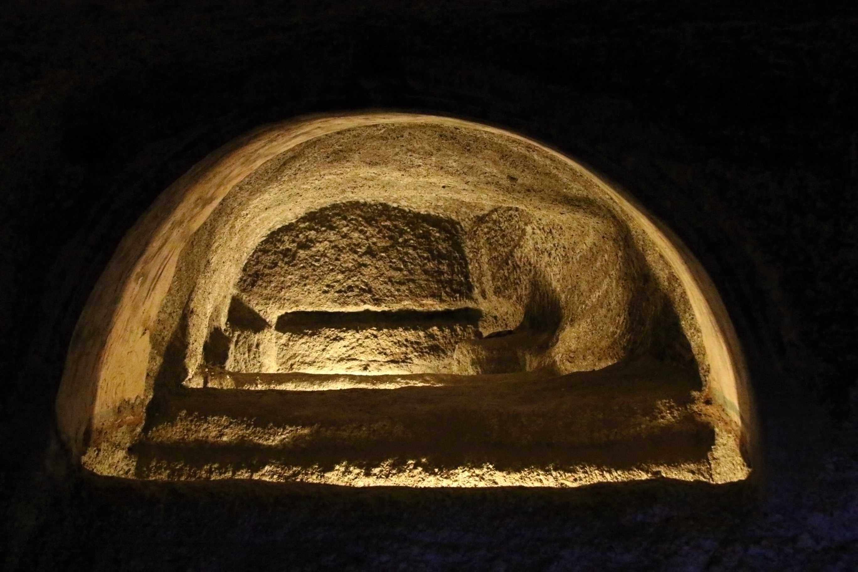 Catacombs of Milos, one of the tombs.